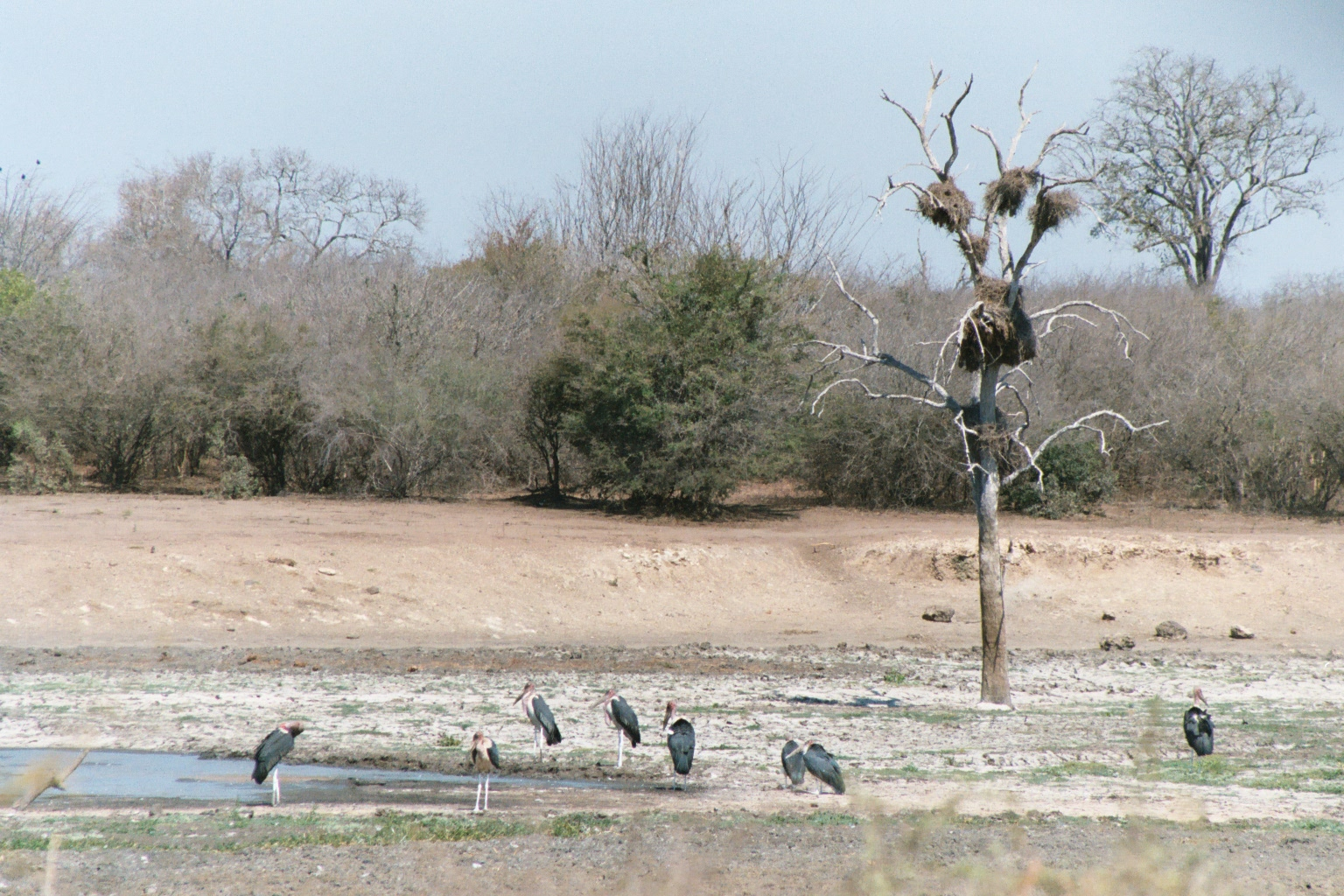 Marabou storks (Leptoptilos crumeniferus). South-Africa's Kruger Park